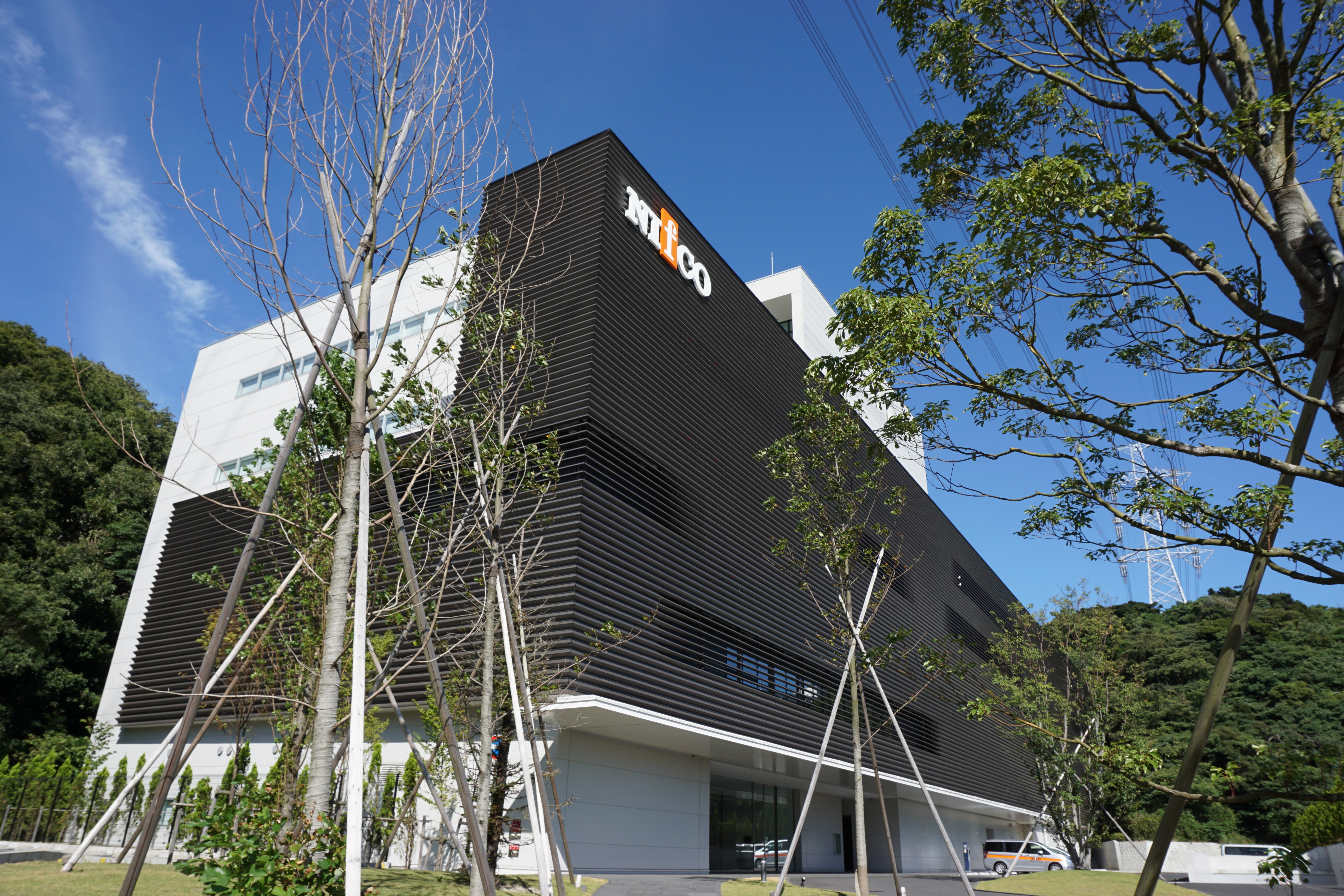 Nifco NTEC(Nifco Technology Development Centre)